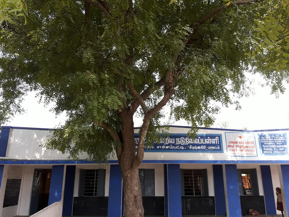 P.U.M.SCHOOL, ECHAMPATTI